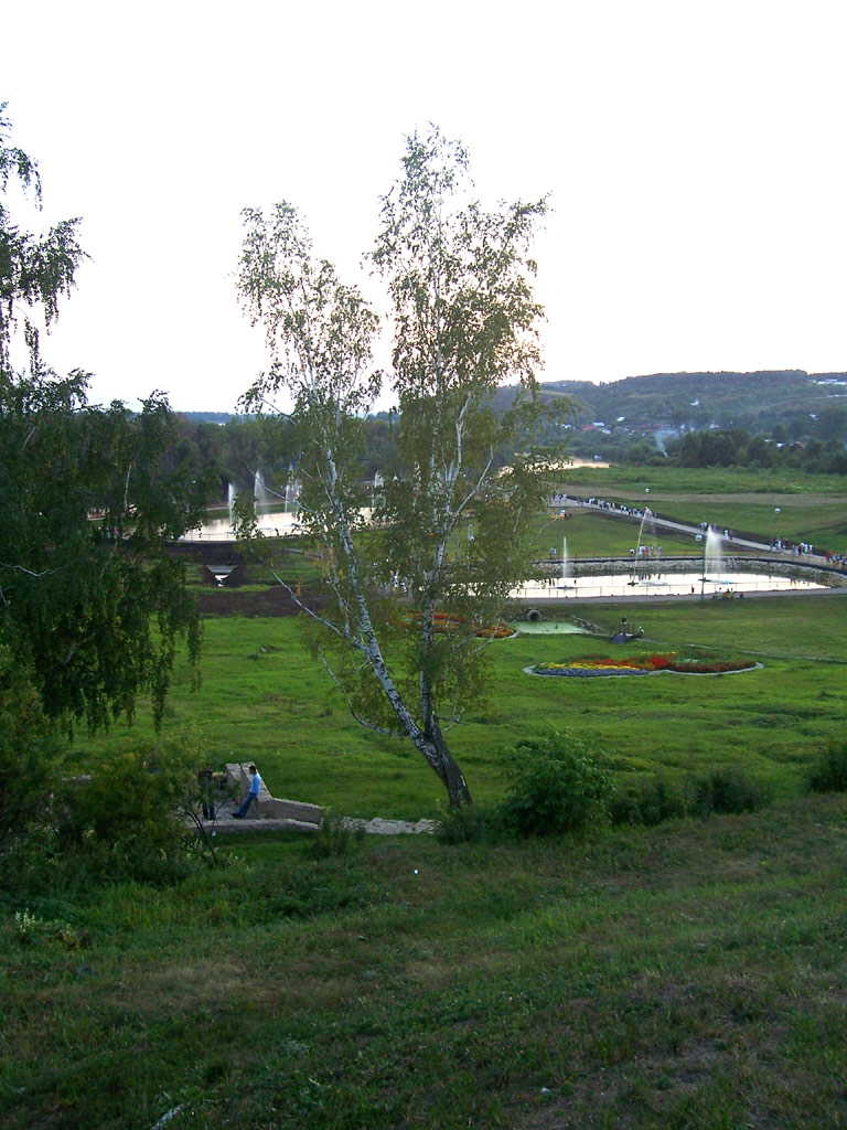 The city of Elabuga, Shishkin ponds, favourite vacation spot of the townspeople